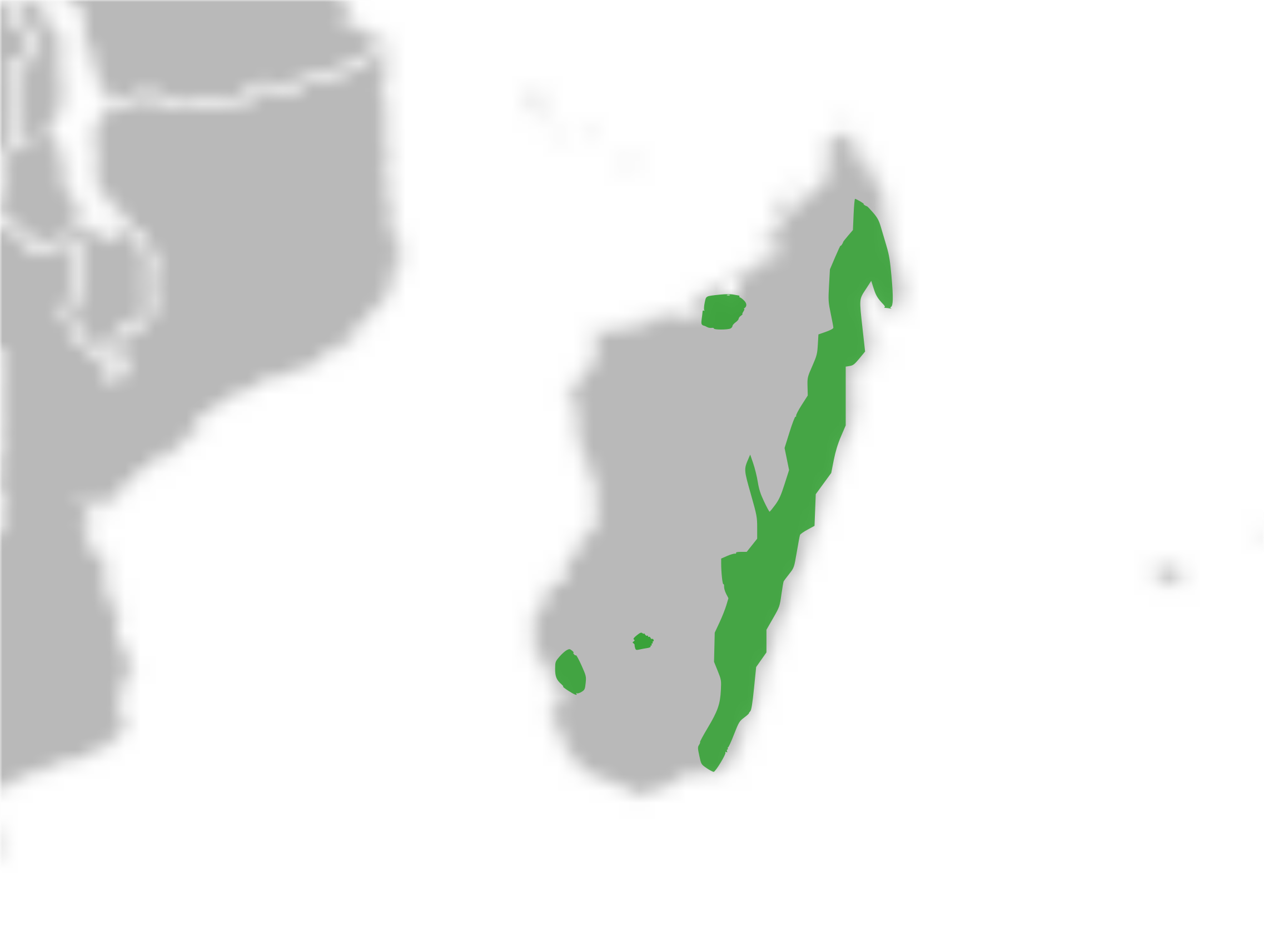 A distribution map showing the lowland forrest of Madagascar where G. portentosa is supposed to live. The map also shows where G. portentosa has been observed on the Island. Original author for blank SVG map: Frank Bennett Made with Inkscape